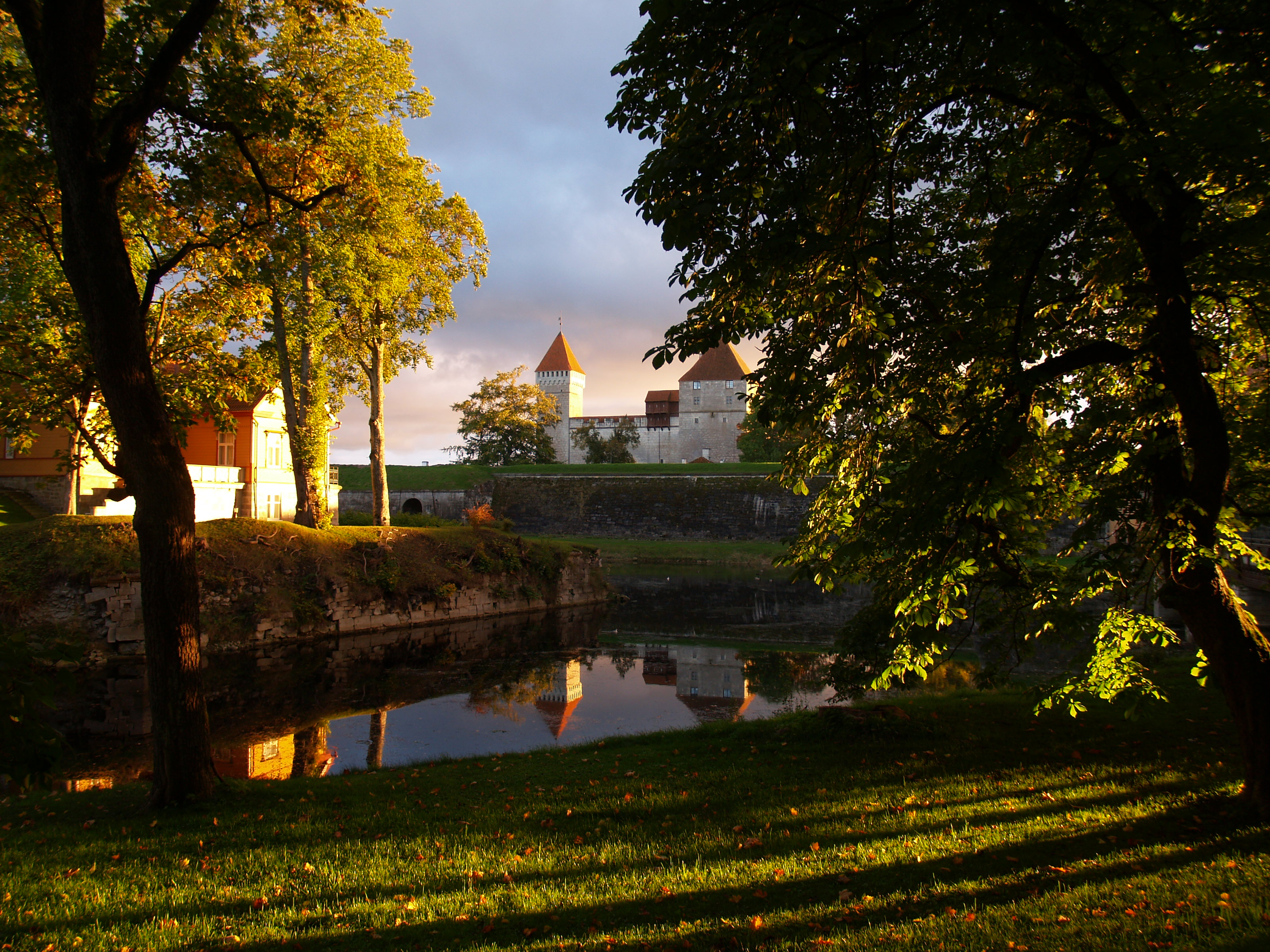 Kuressaare Castle, Estonia